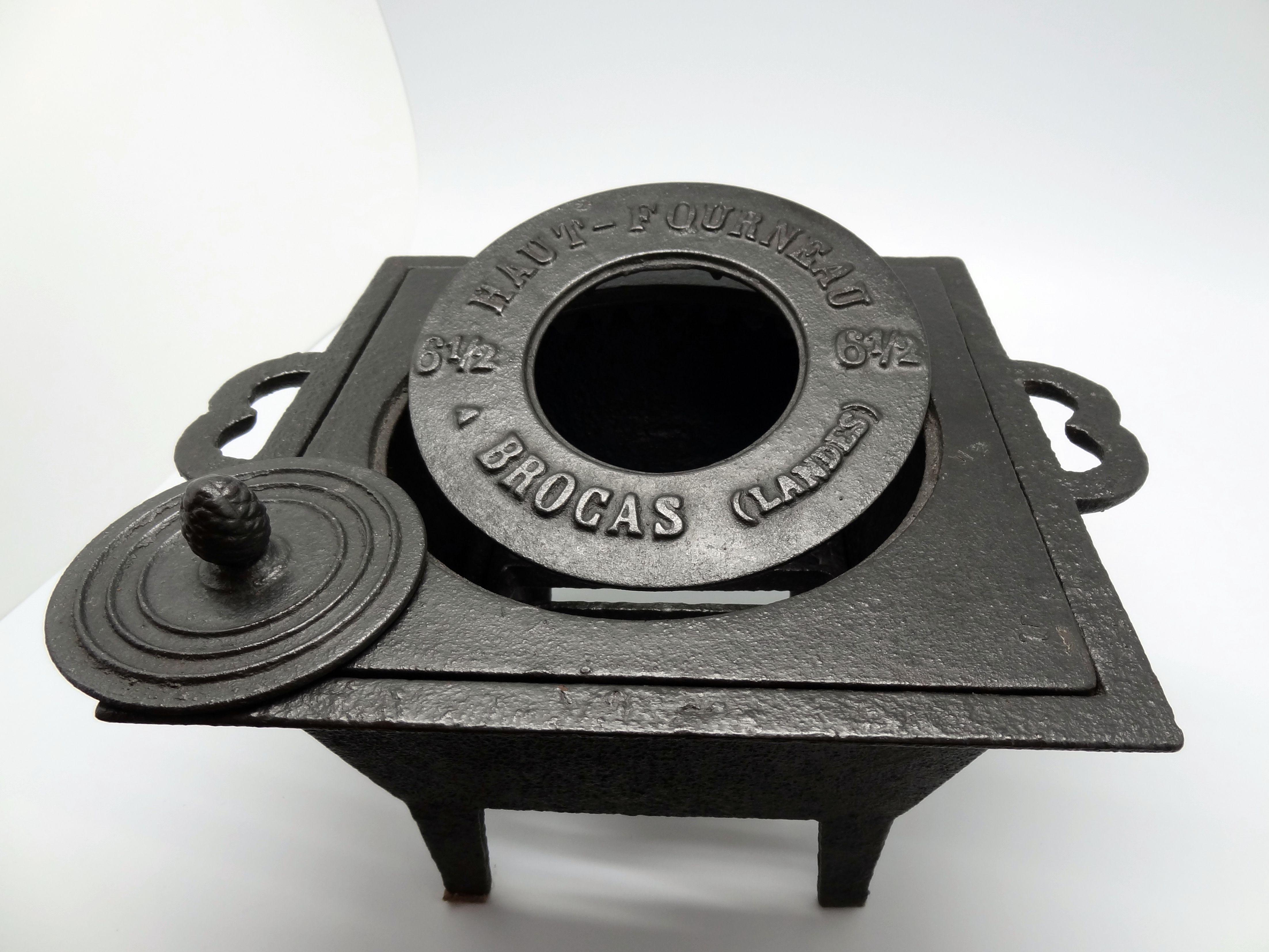 Potager on foot in cast iron. Used for the preparation of potage and stews, with embers taken from a fireplace.